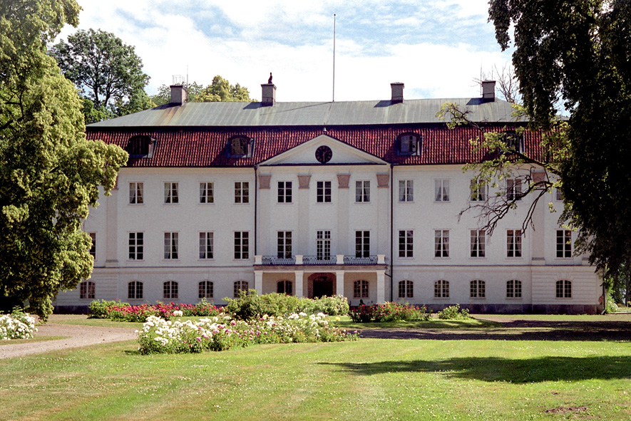 Almnäs House in Västergötland, Sweden